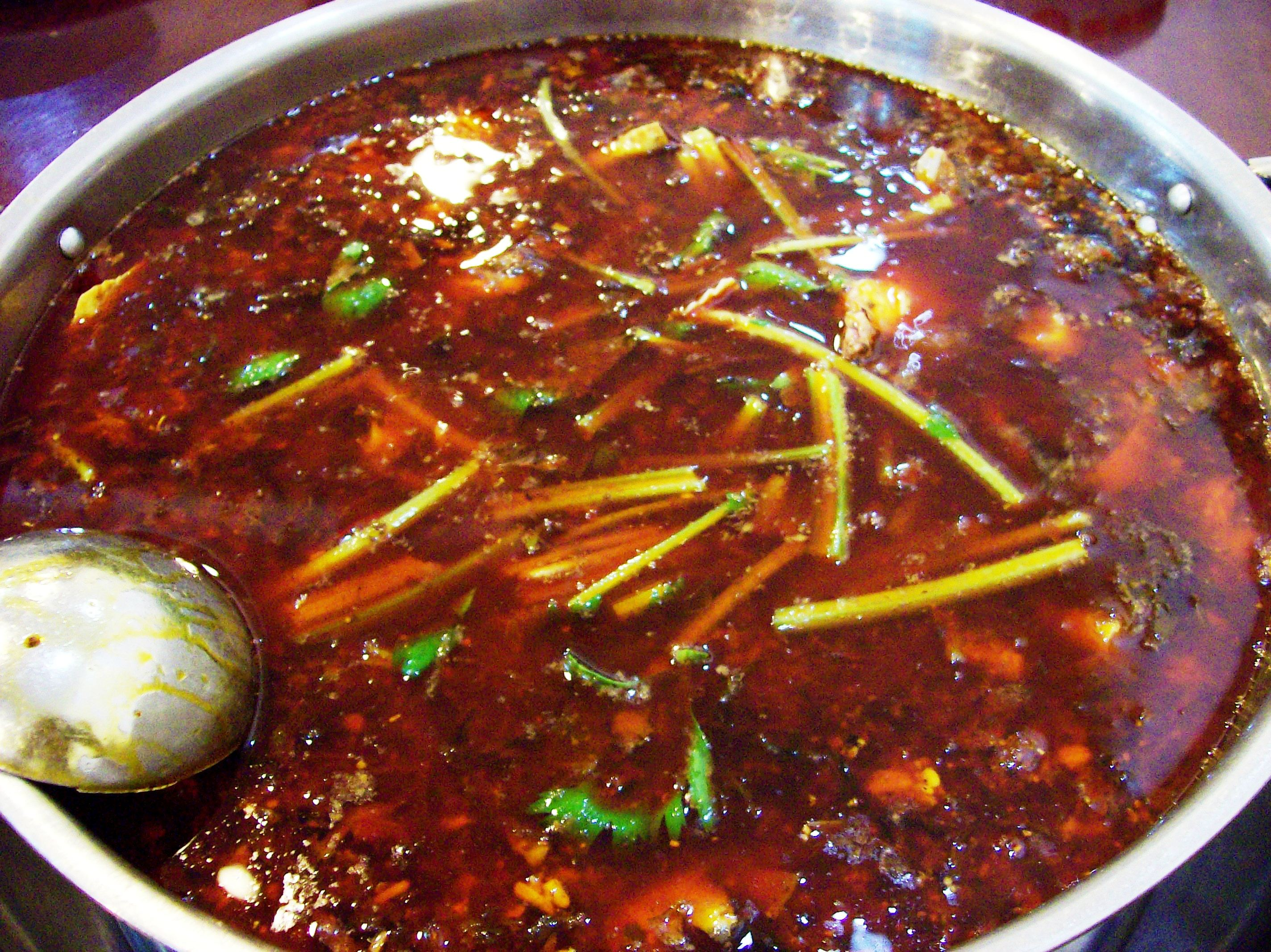 重庆火锅. Chongqing hotpot, a Szechuan version of the Chinese Hot pot